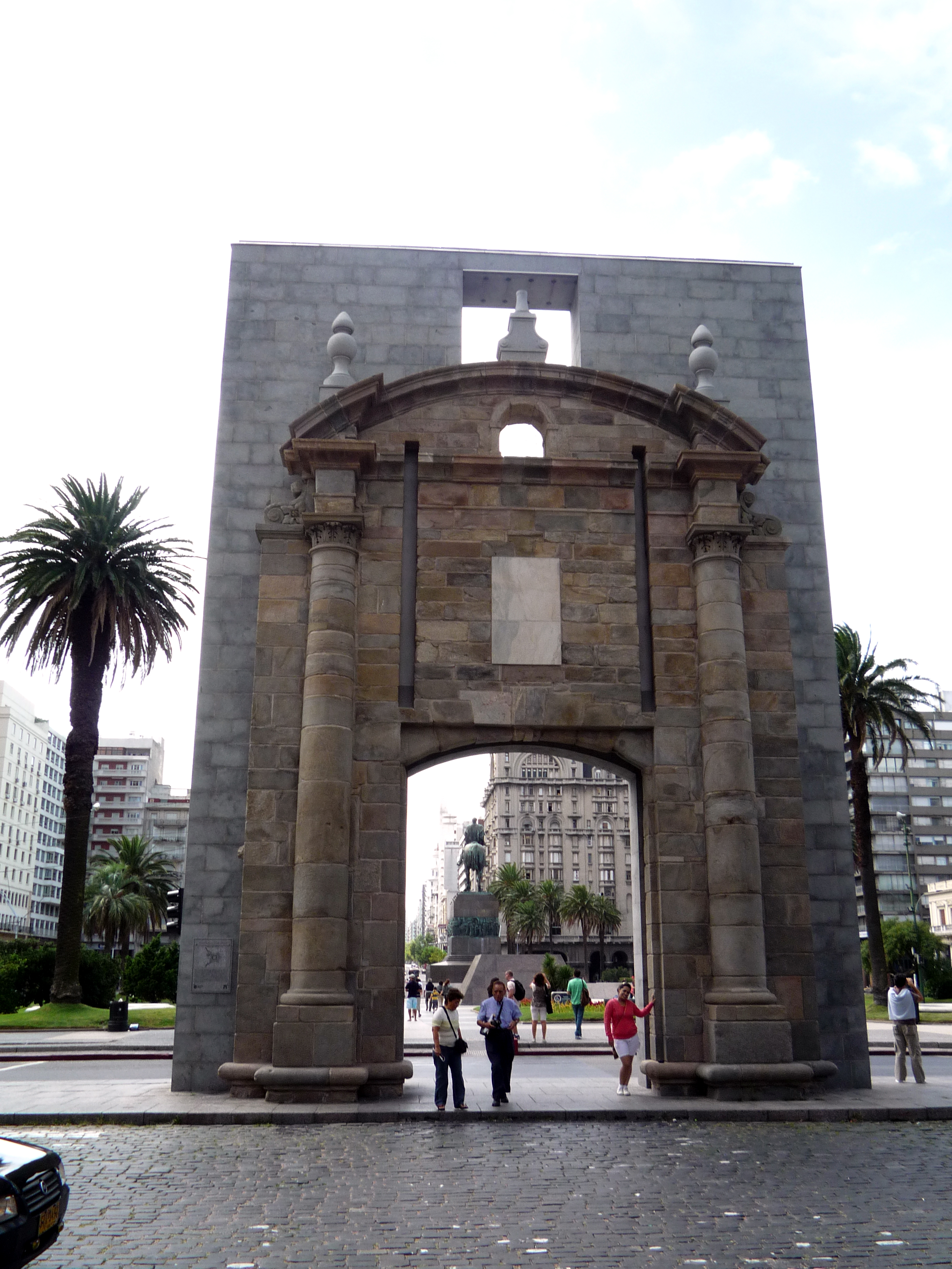 Gate of the old fortress of Montevideo, Uruguay